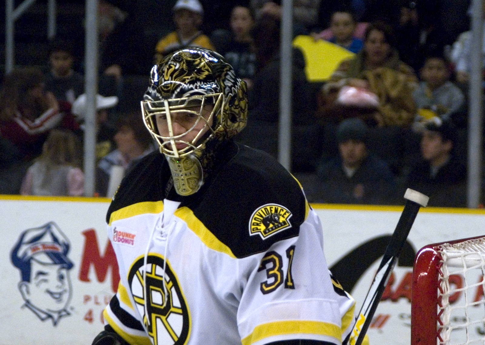 ERI_3983 Manchester Monarchs versus Providence Bruins. American Hockey League (AHL). Taken by Sarah Connors on January 23, 2011 using a Nikon D200. This photo also appears in Sarah Connors' Flickr set "Manchester @ Providence, 1/23/11" (Set of 98).